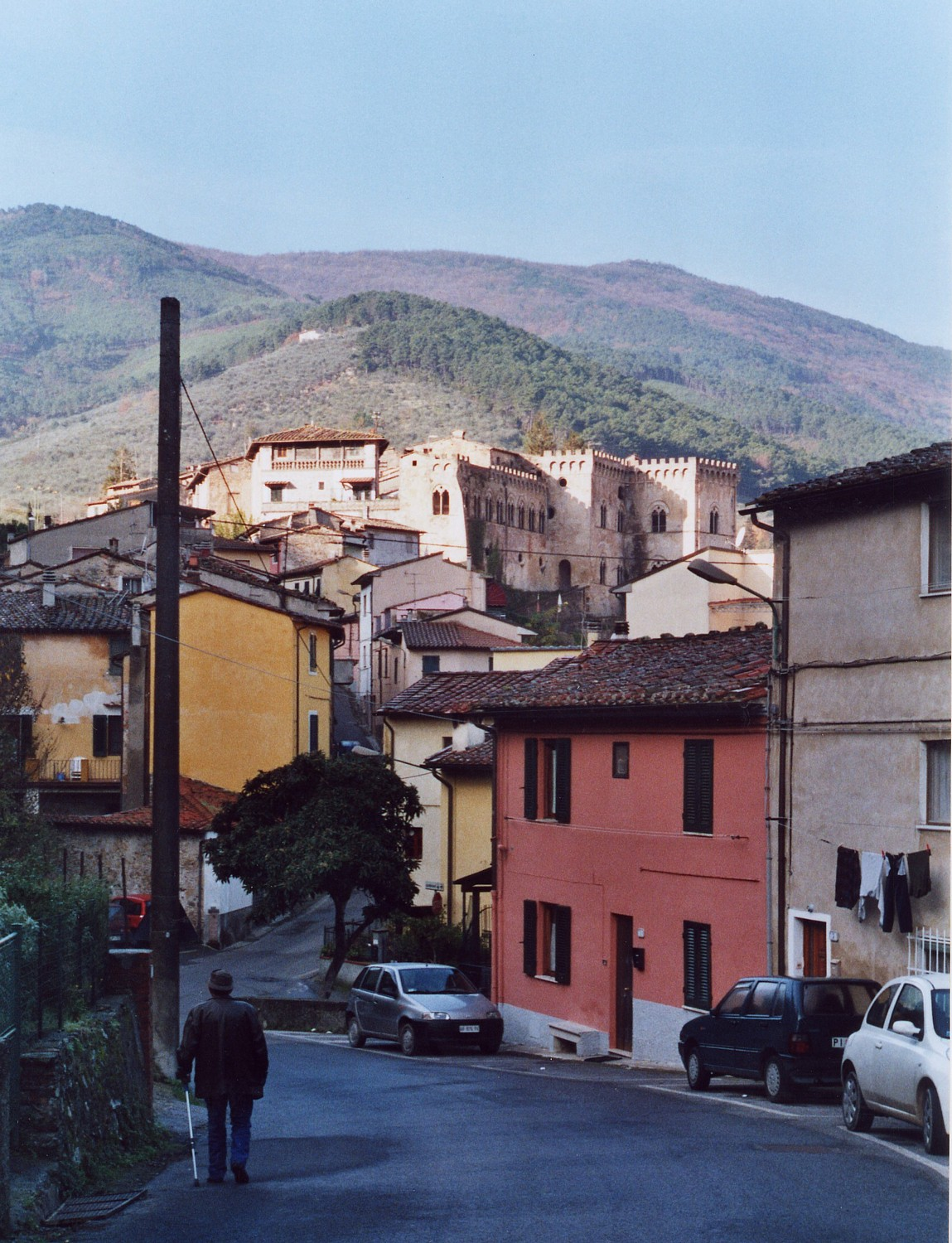 Buti, Tuscany, Italy Castel Tonini (Villa Medicea) Photo: November 2006 by myself